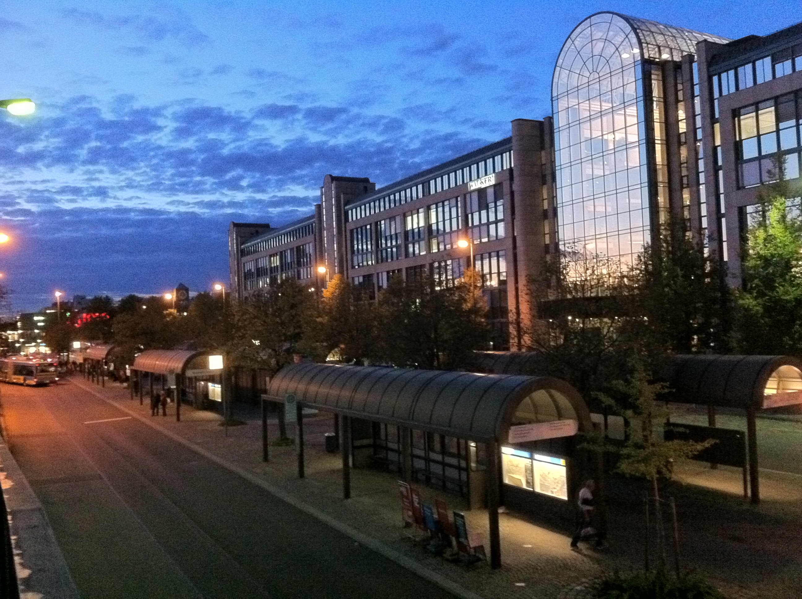 The bus terminal of Neuperlach Zentrum in Munich in 2011.